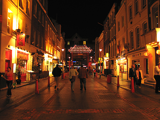 "Chinatown" in Soho: City of Westminster. The row of Chinese Restaurants in the Soho area of the city. (South eastern section of the square).